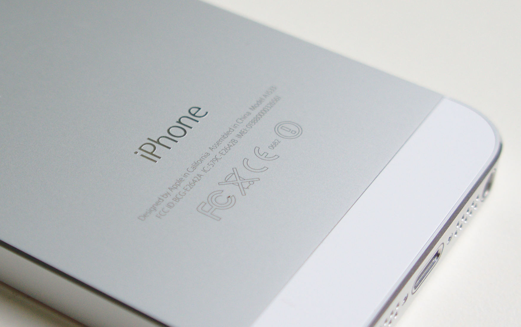 A closeup of the iPhone 5S Apple "iPhone" wordmark